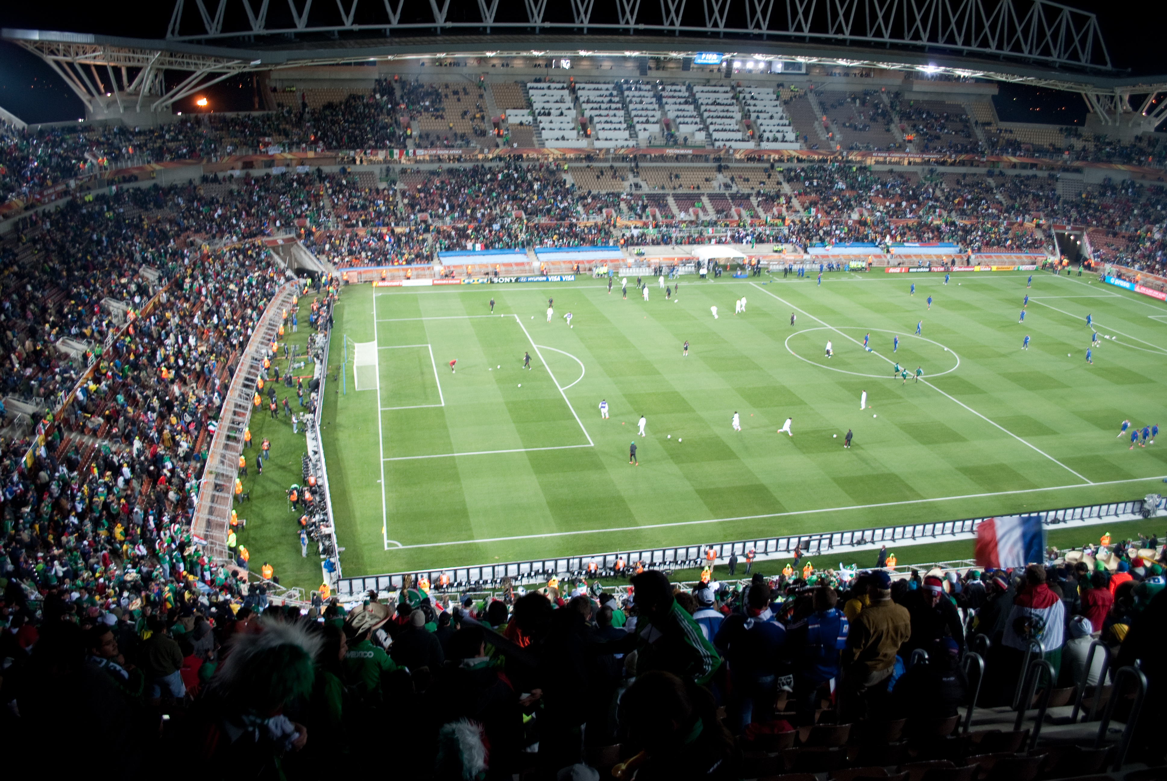 About to lose...